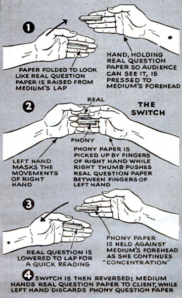 Billet reading cheat method that fraudulent mediums have utilized.